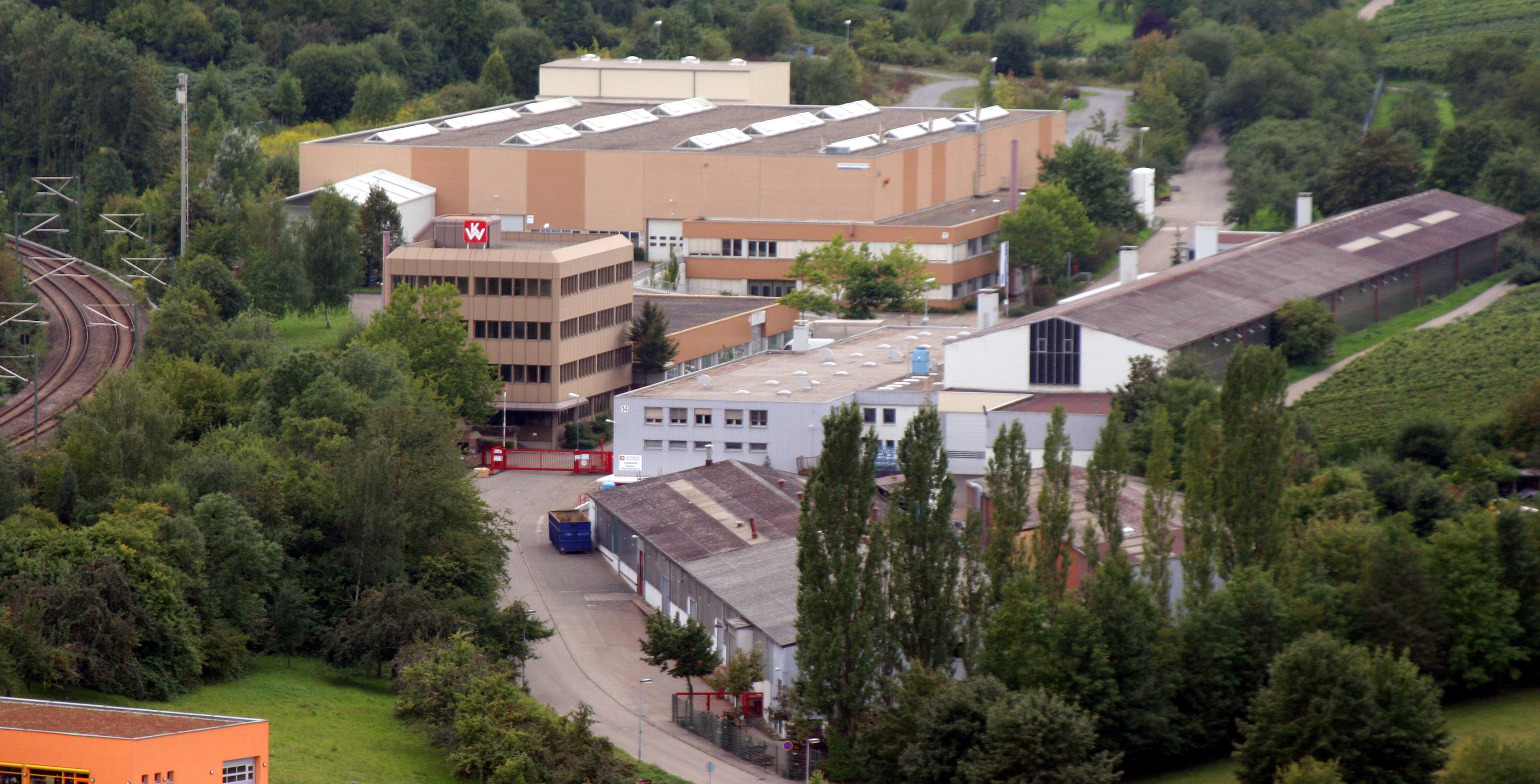 Site of the Karosseriewerke Weinsberg